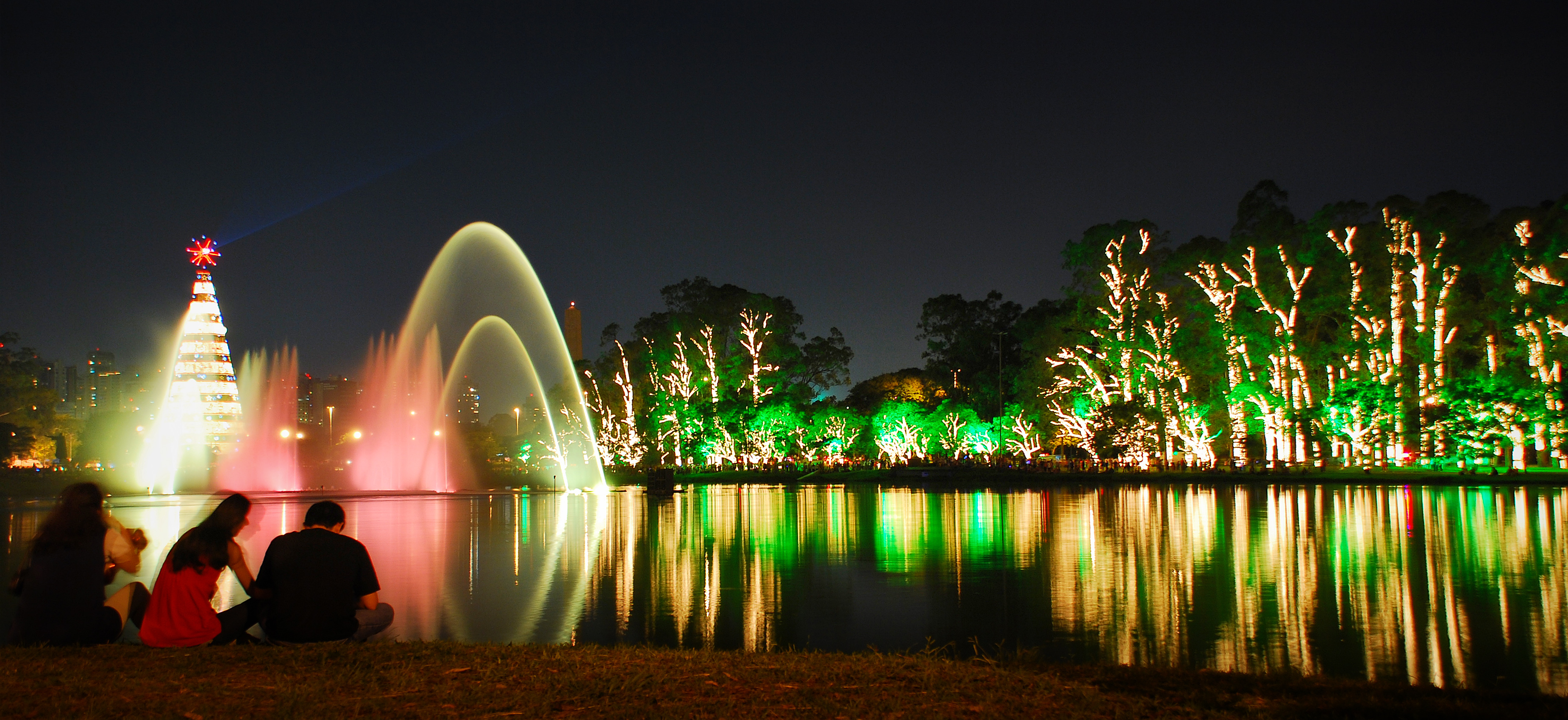 Ibirapuera Park at Christmas night